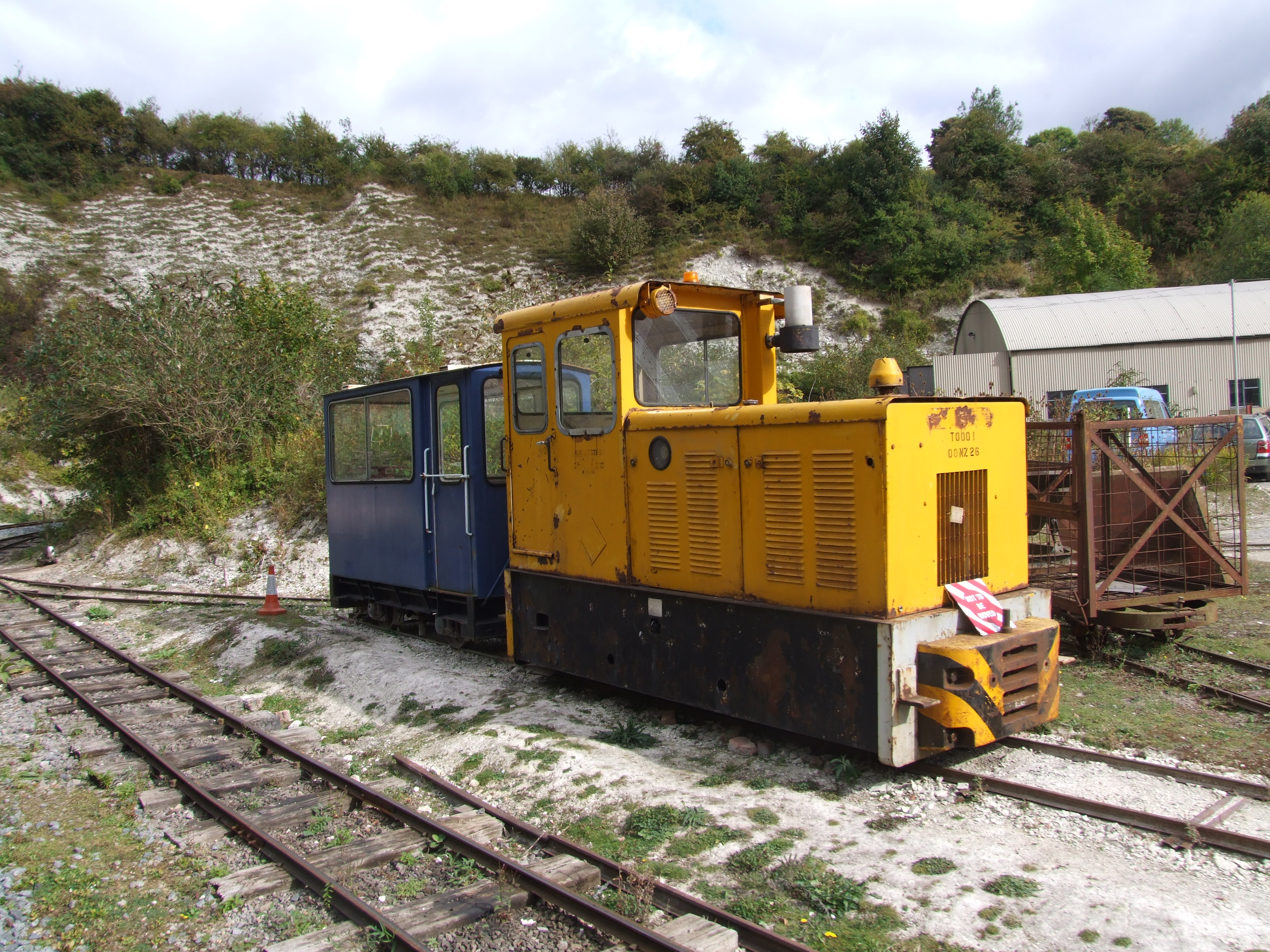 About which I know very little. This skirted engine was seen at Amberly